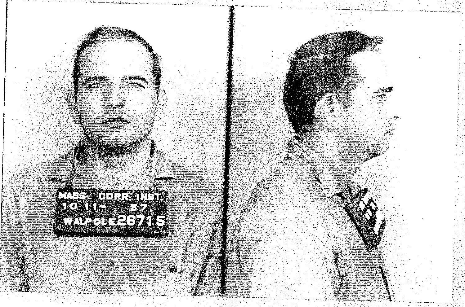 Photos of Vincent Flemmi while he was incarcerated at MCI Norfolk. The photos indicate that they were taken on 9 March 1966 and 11 October 1957.